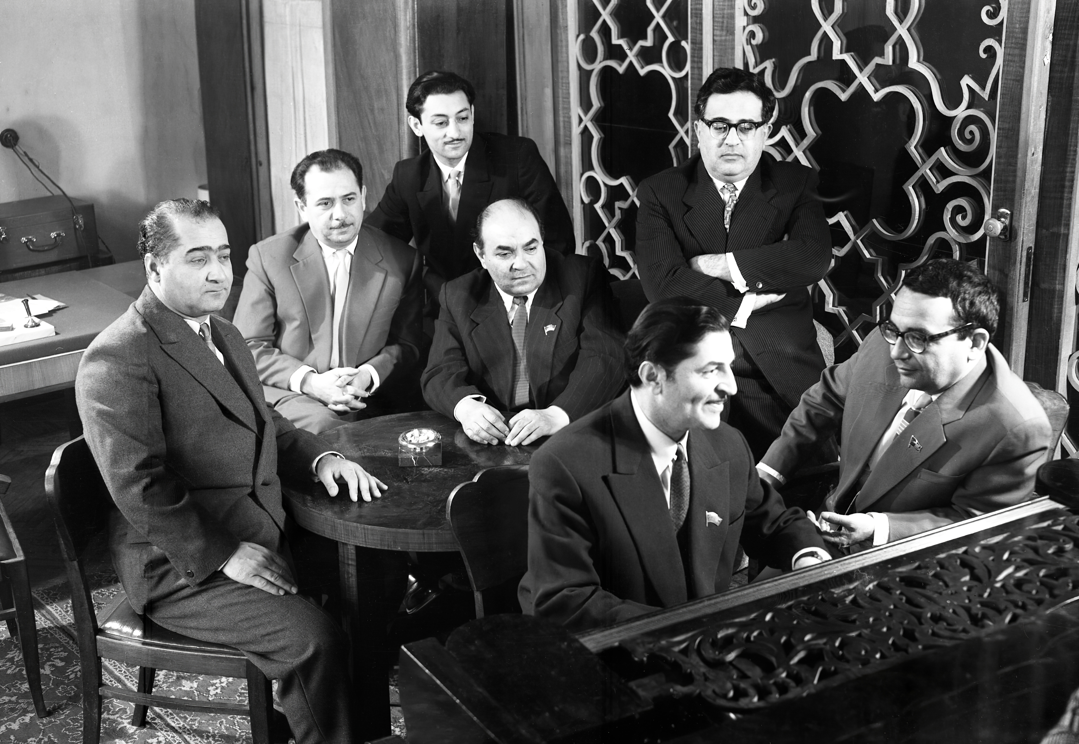 From left to right:Jahangir Jahangirov, Tofig Guliyev, Azer Rzayev, Said Rustamov, Soltan Hajibeyov, Niyazi and Gara Garayev